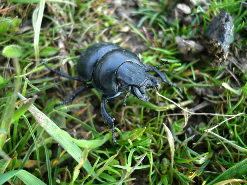 A photo is done the spring of 2009 in the forest-planting bar of city Manganese, Dnepropetrovsk area, Ukraine